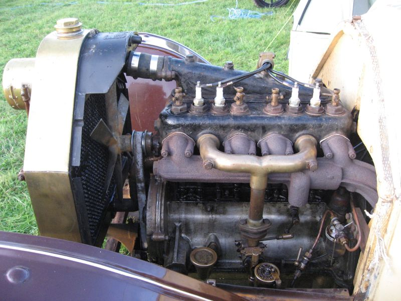 1915 Belsize 3-seater with dickey engine Veteran Car Club of Great Britain Young Persons Rally, Devizes